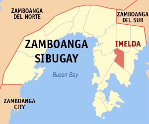 Map of the Zamboanga Sibugay showing the location of Imelda